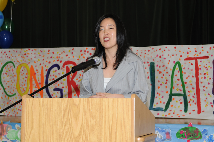 Michelle Rhee speaking to a NOAA student award ceremony